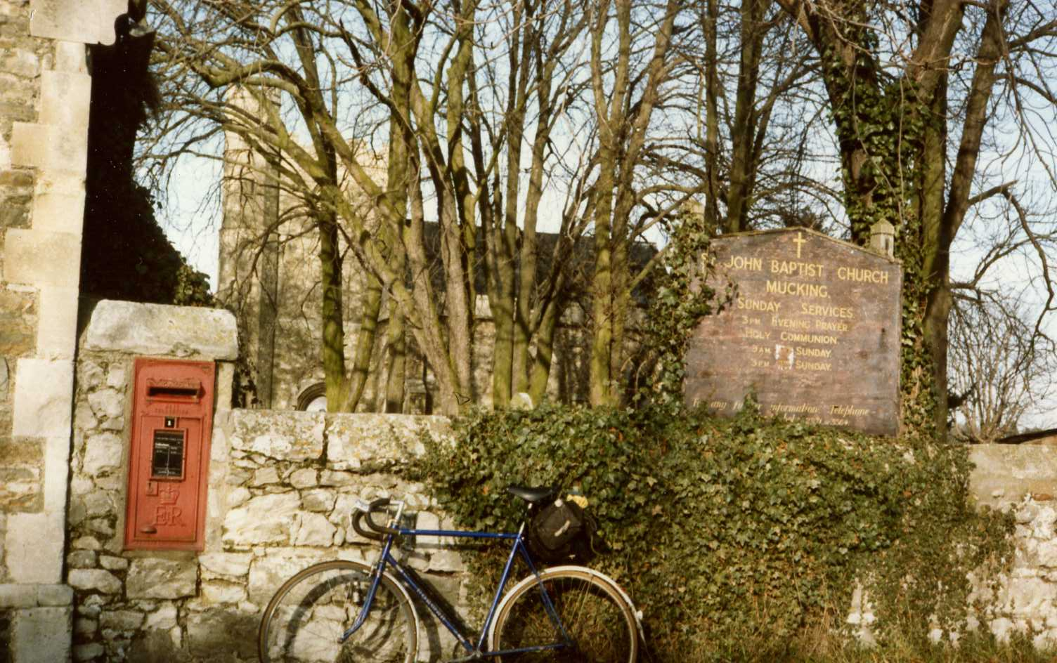 Mucking - St John Baptist Church and letter box Spring 1986